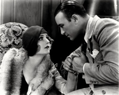 Carole Lombard and Robert Armstrong in The Racketeer (1929) - cropped screenshot